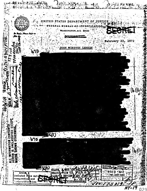 In the early 1970s, the US government conducted surveillance on ex-Beatle John Lennon. This is a letter from the government files. After a 25-year Freedom of Information Request battle initiated by historian Jon Wiener, the files were released. Here is one page from the file. This first release received by Wiener was heavily magic-markered out, that is, redacted. A subsequent version was released which showed much of the previously blacked-out text.